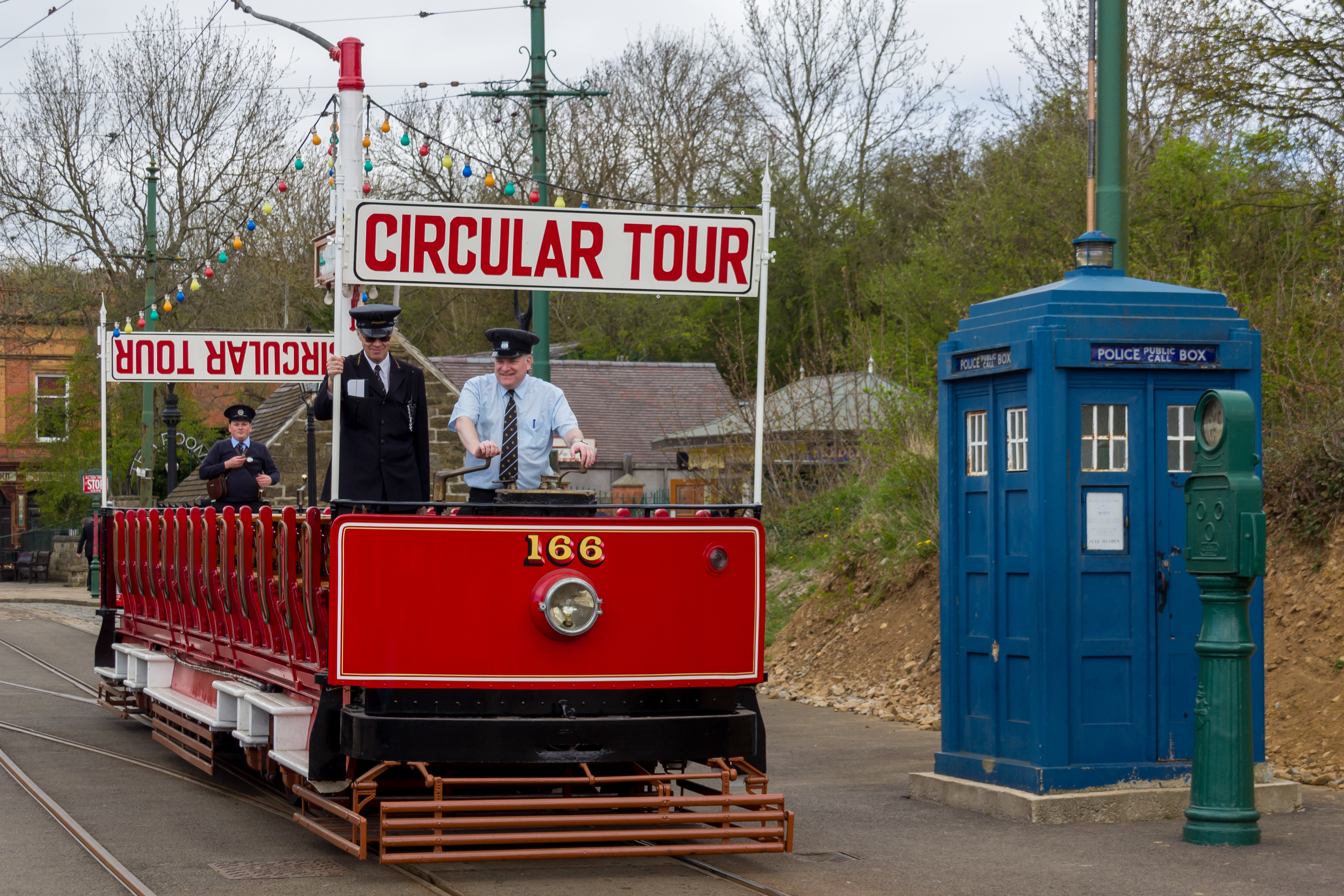 Blackpool Corporation Transport No. 166 at the National Tramway Museum, Crich.